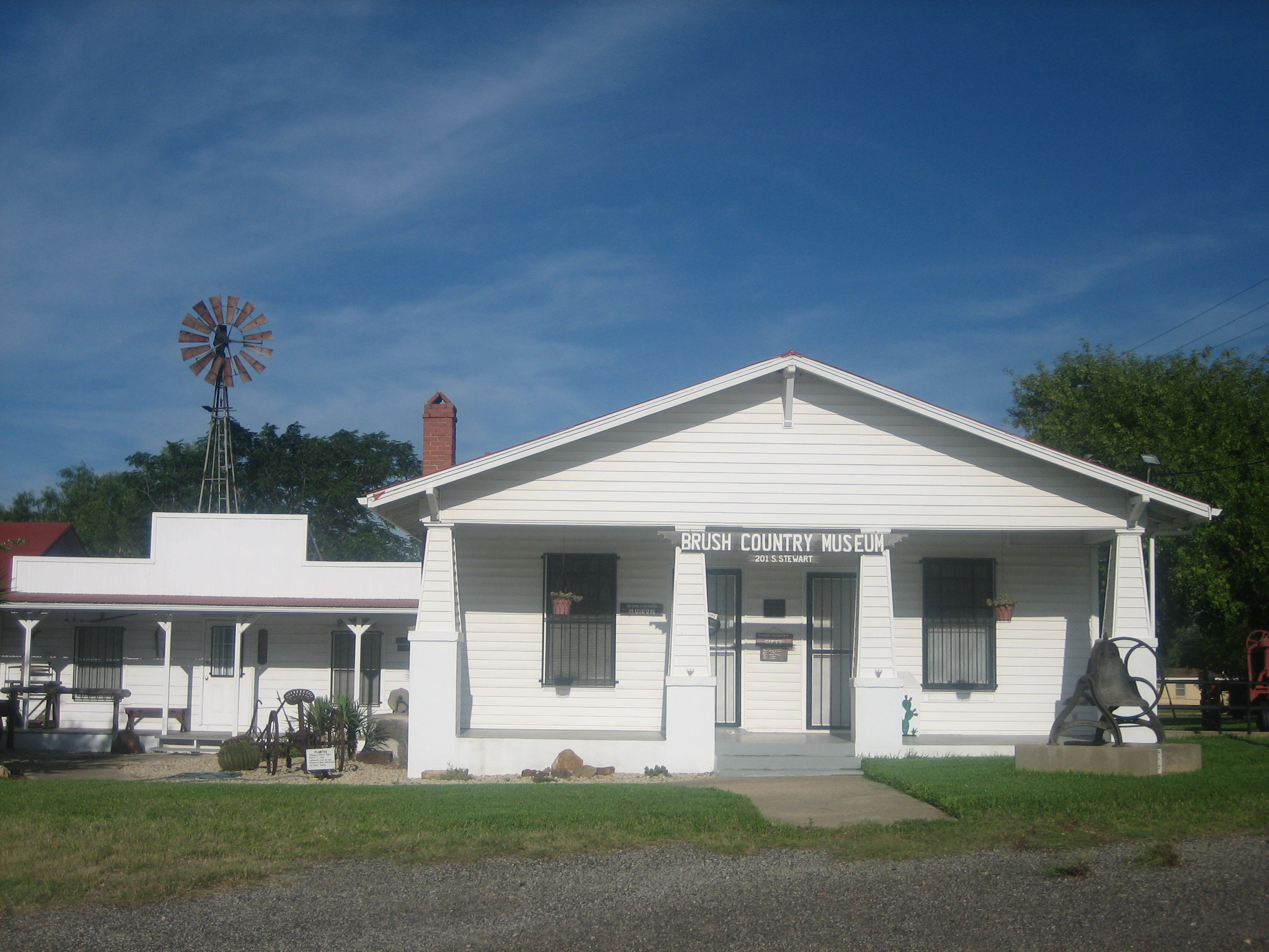 Brush Country Museum in Cotulla, Texas.